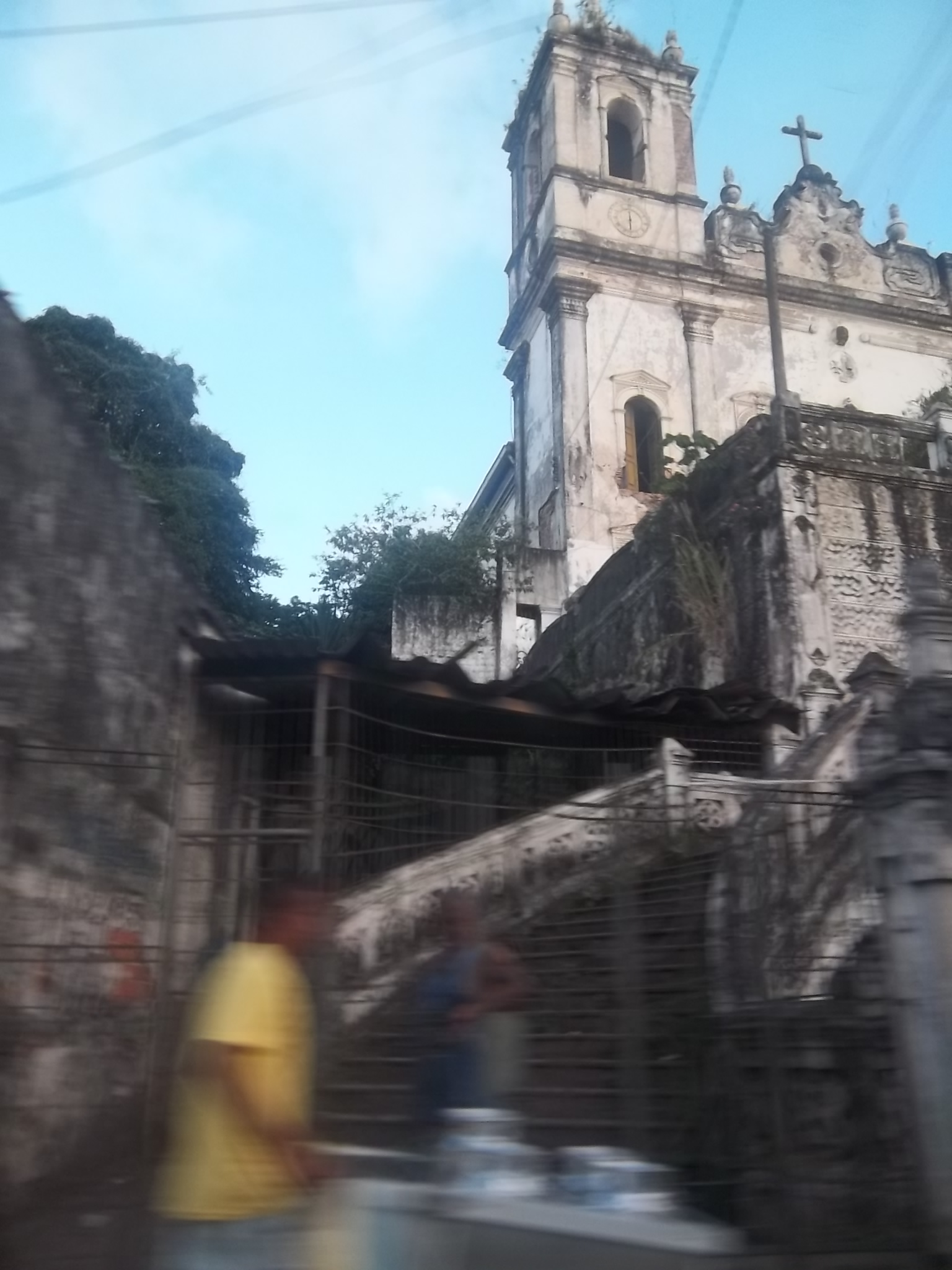 Igreja da Ordem Terceira da Santíssima Trindade, Salvador, Bahia.